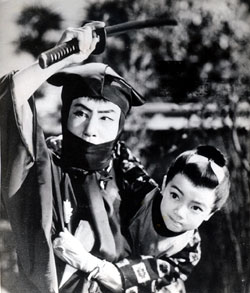 Tomoko Matsushima and Kanjūrō Arashi in 1956 Japanese movie Kurama Tengu: Goyōtō Ihen